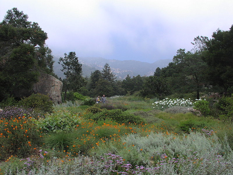 Historic native meadow area of the Santa Barbara Botanic Garden. The garden exclusively collects and displays the native plants of California. With native perennials in bloom, and the Santa Ynez Mountains in background. Image comes from english wikipedia page : [1]